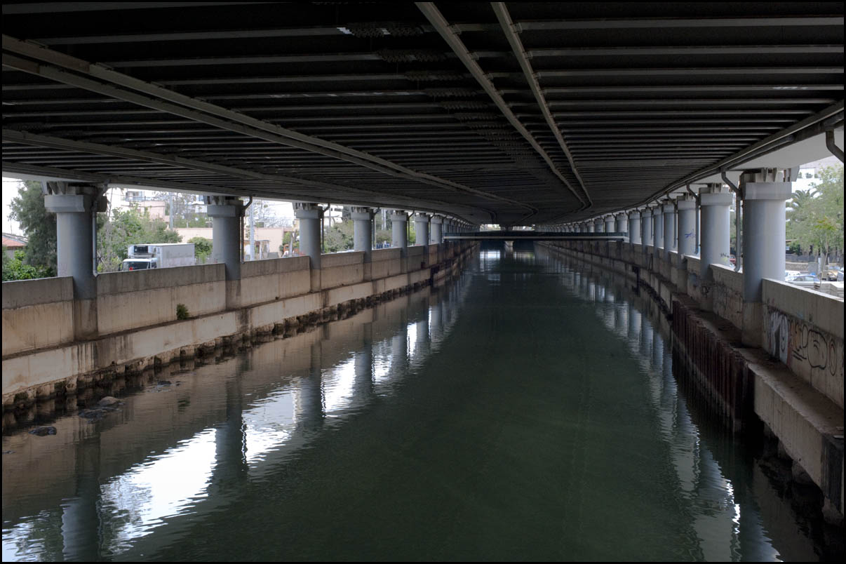 Cephissus (Athenian plain) (Greek Κήφισσος, Kifissós, Kephissós, Kêphissos) river flowing through the Athenian plain. View of the river under the highway of Athens-Lamia.